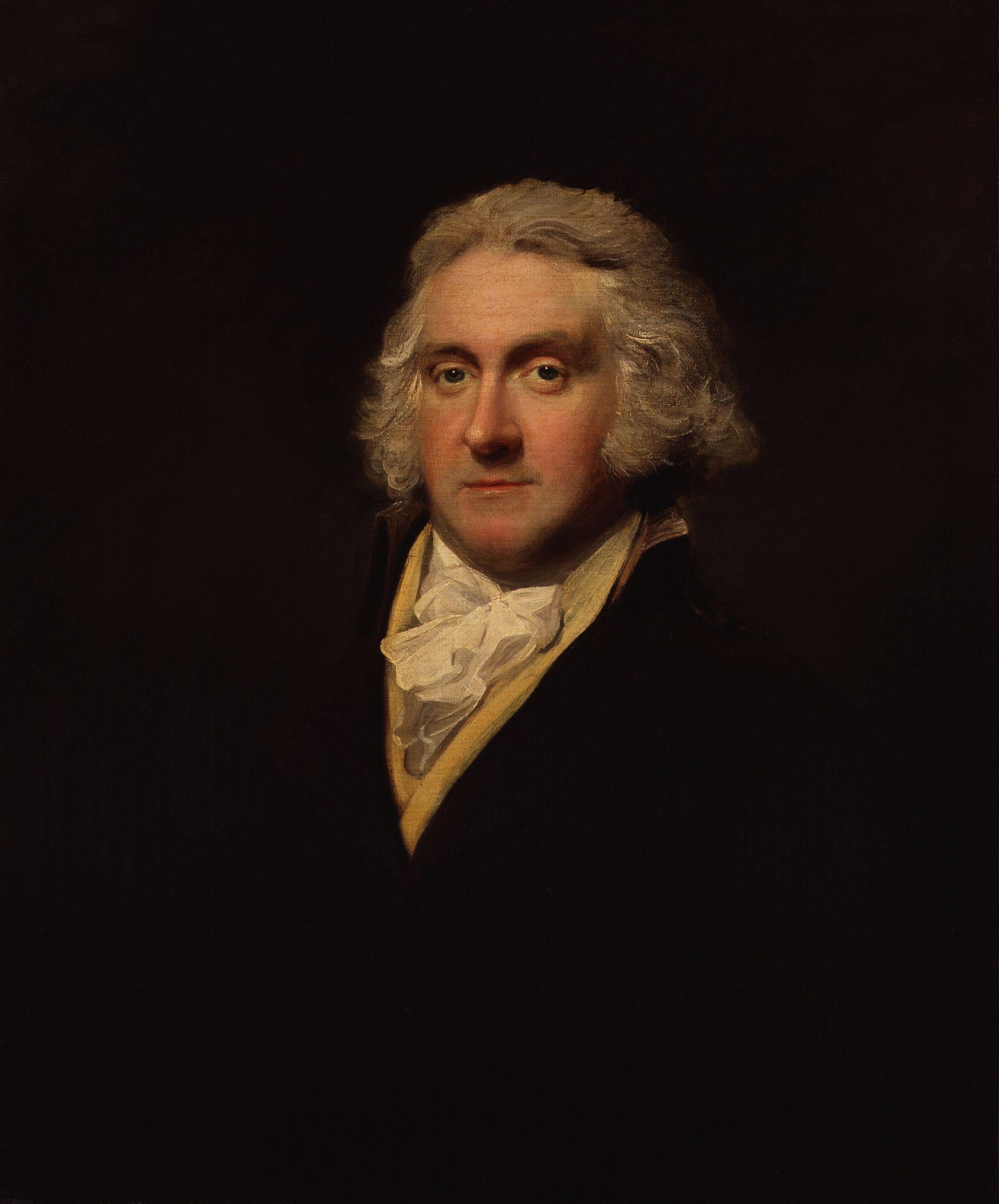 All images in this batch have been confirmed as author died before 1939 according to the official death date listed by the NPG.